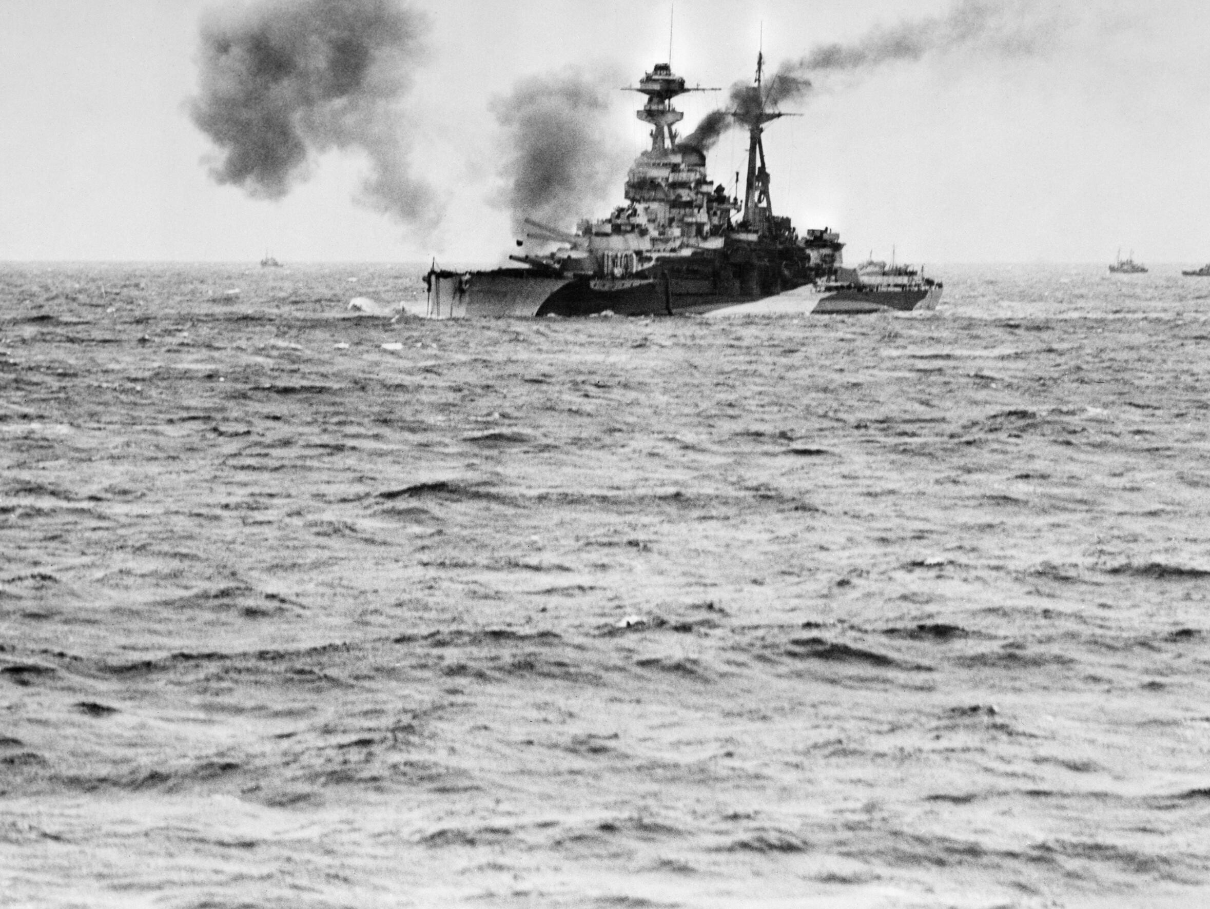 HMS RAMILLIES bombarding enemy positions on the Normandy Coast, 6 June 1944. The battleship HMS RAMILLIES bombarding enemy positions on the Normandy Coast on D-Day off Le Havre (photographed from the frigate HMS HOLMES).